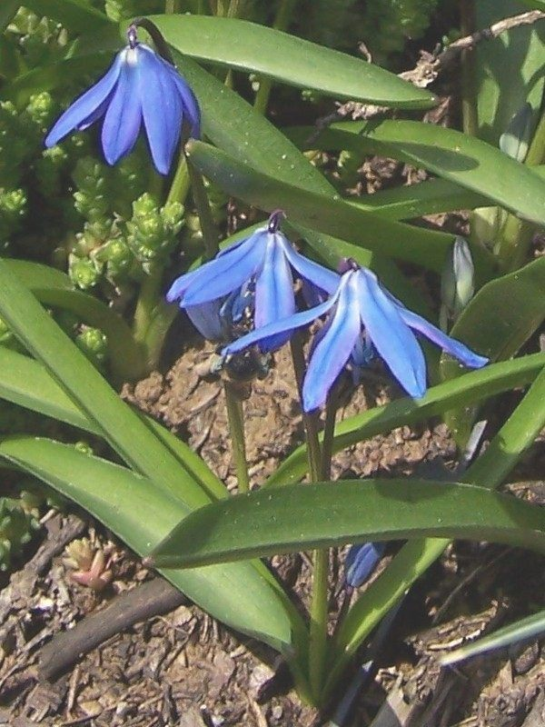 Othocallis siberica (Scilla siberica) (pl. cebulica syberyjska)